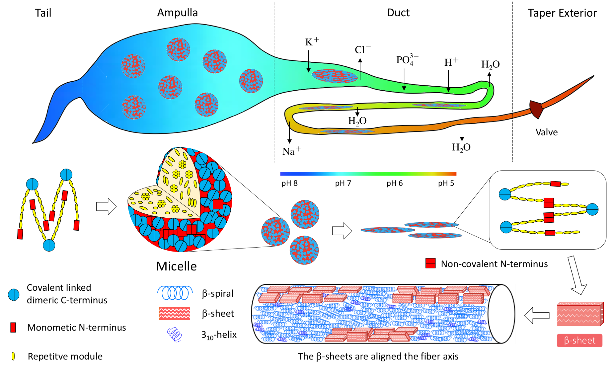 Schematic of the spiders spinning apparatus and structural hierarchy in silk assembling related to assembly into fibers.